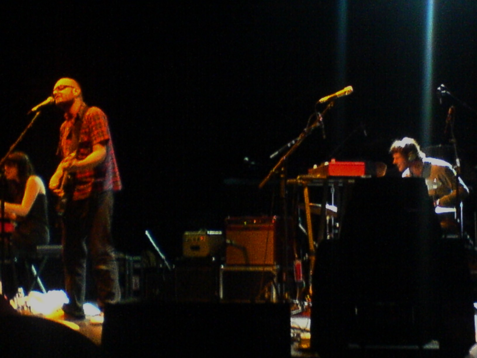 Styrofoam supporting Death Cab for Cutie at the Manchester Apollo, en:16 July en:2008